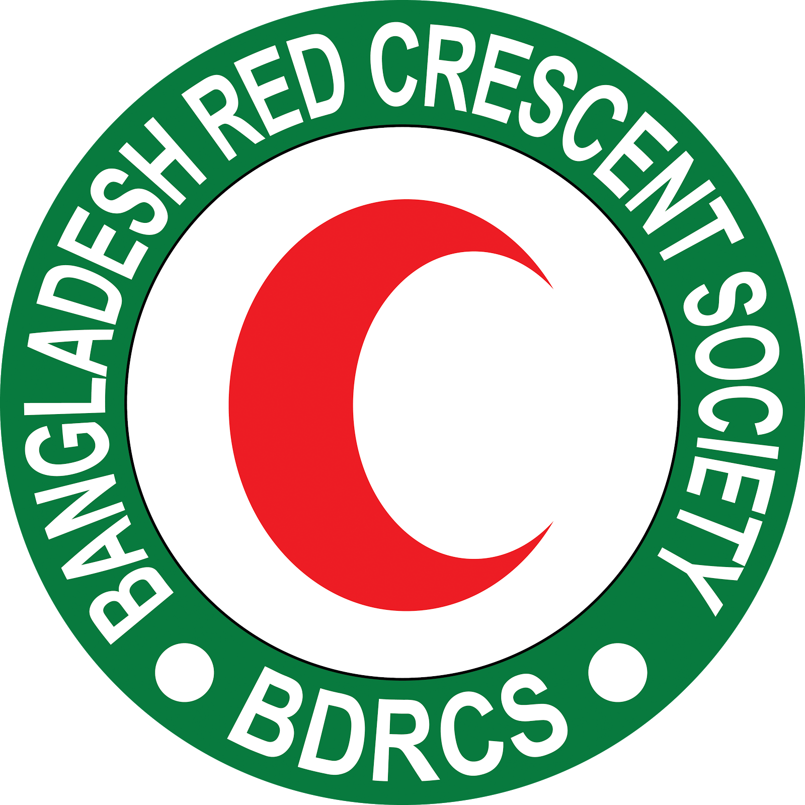 Bangladesh Red Crescent Society Logo